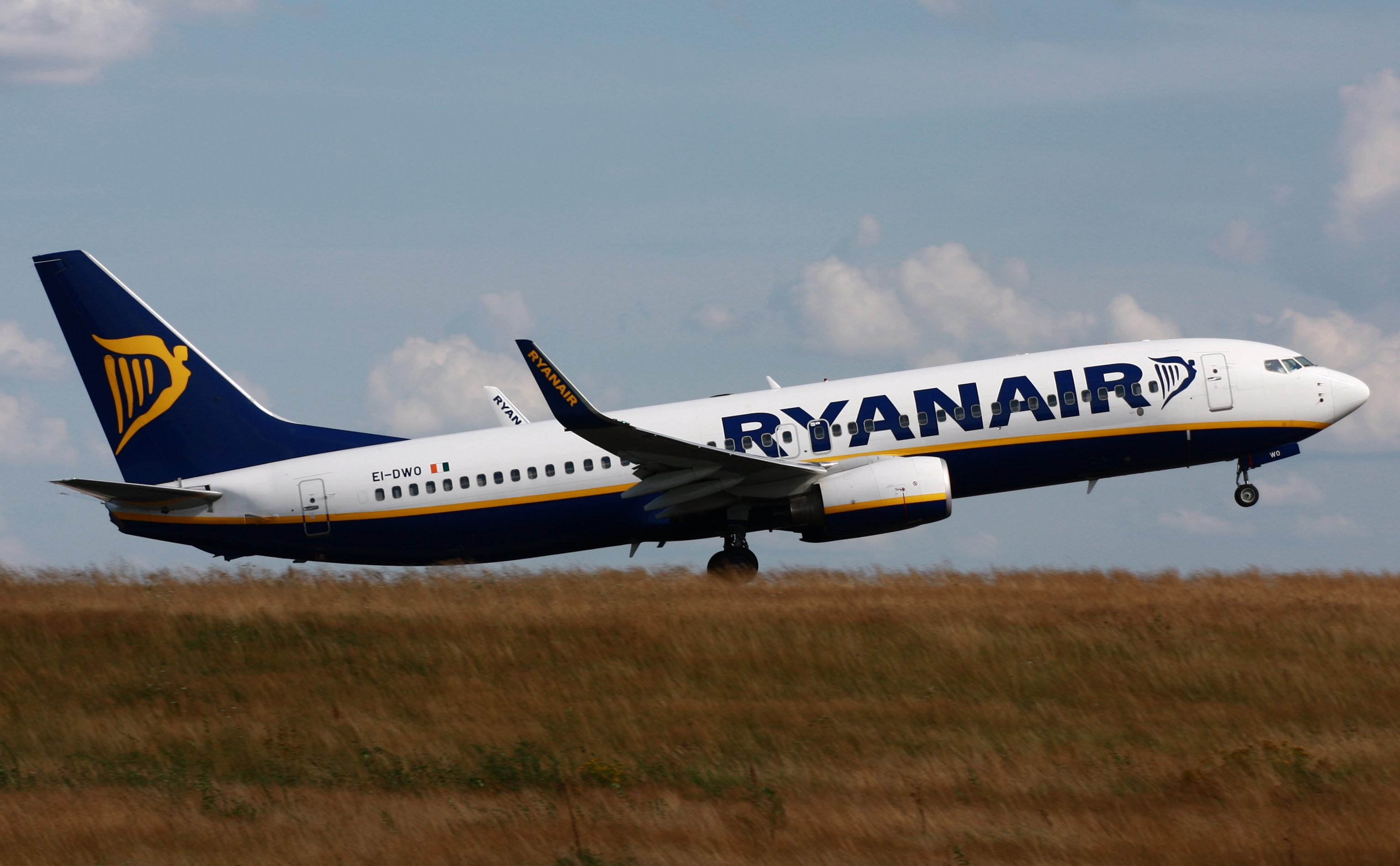 Boeing 737-800 (EI-DWO) taking-off from Hahn